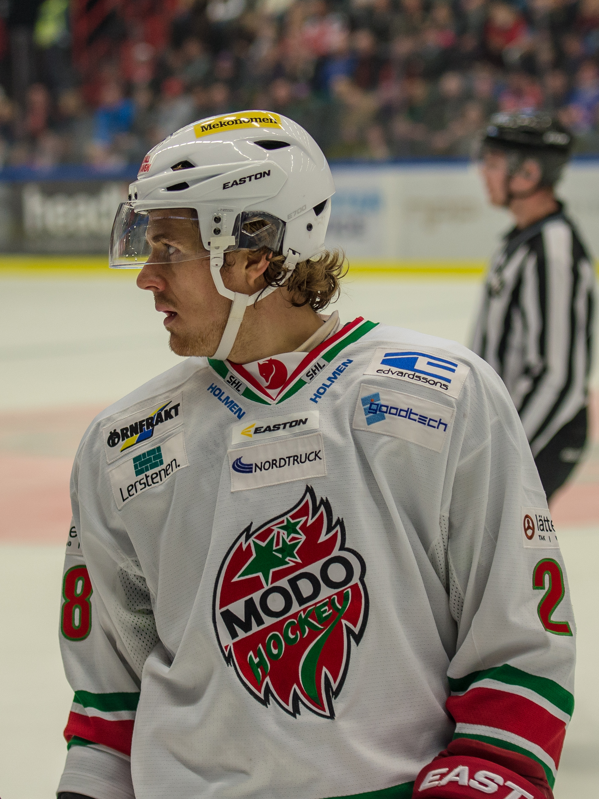 Kristian Forsberg playing for MODO Hockey in SHL (Swedish Hockey League – Sweden's highest league) against Örebro HK in Behrn Arena 2013-10-05.